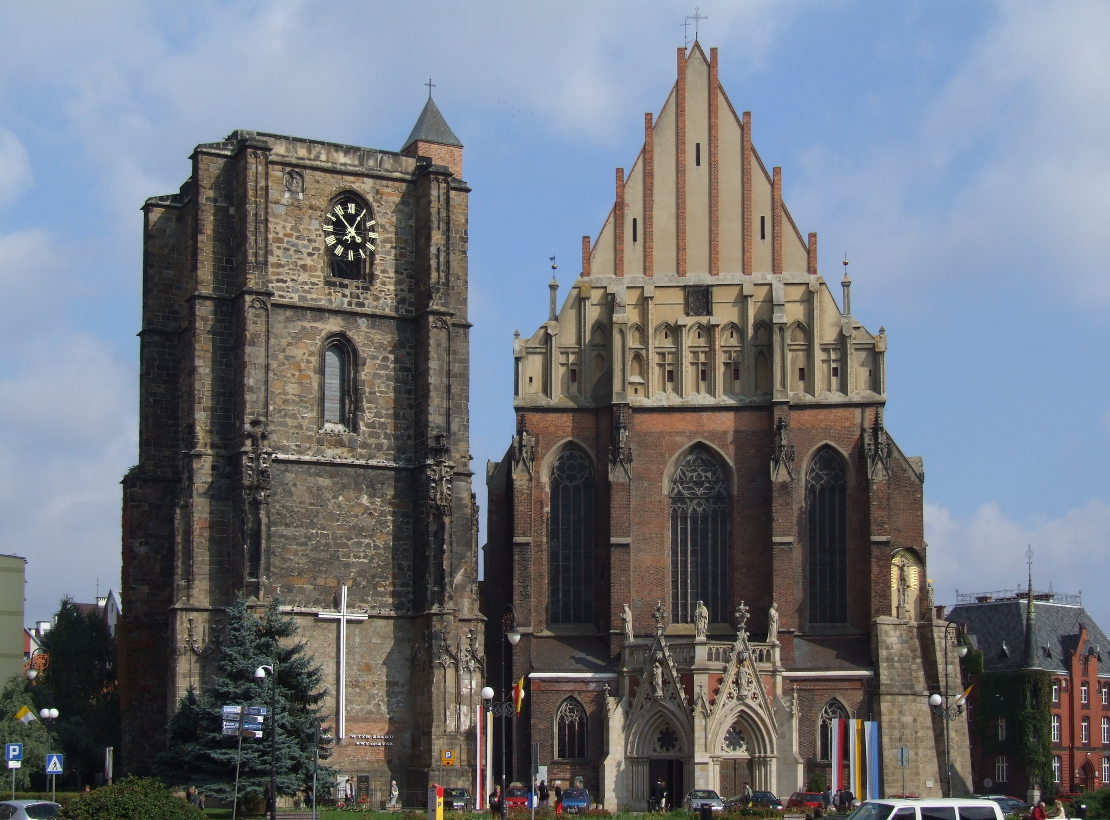 Cathedral and bell tower (on the left) in Nysa (Neisse), Silesia